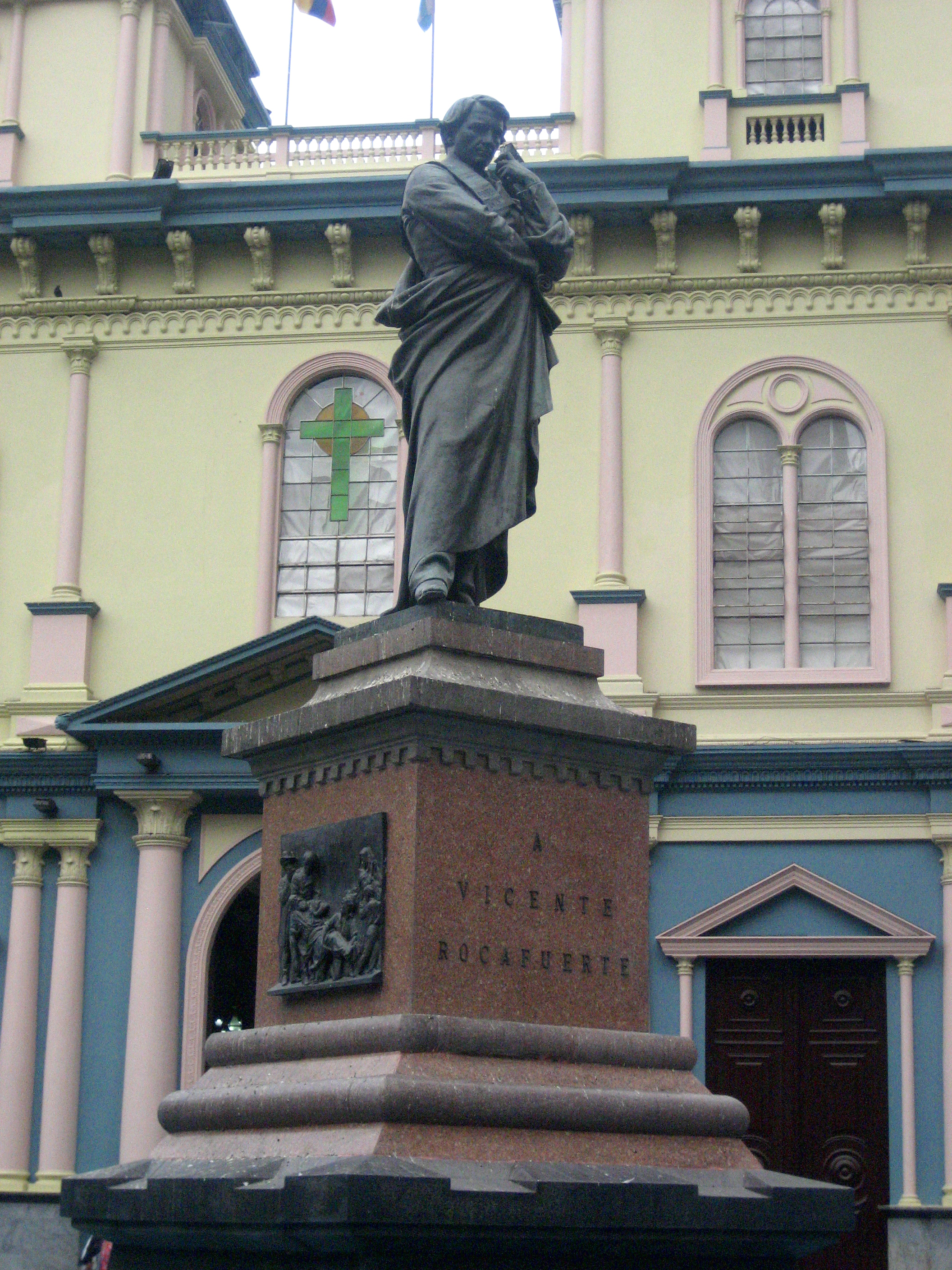 Monument to Vicente Rocafuerte, the second president of Ecuador, in Guayaquil